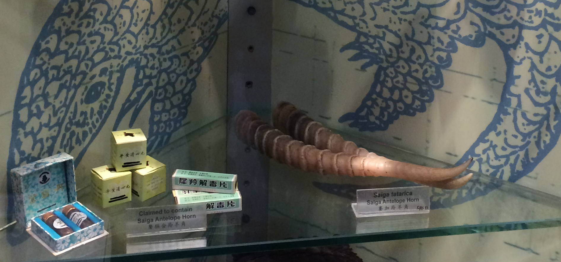 This image is related to a U.S. GAO report: Combating Wildlife Trafficking: Agencies Are Taking Action to Reduce Demand but Could Improve Collaboration in Southeast Asia